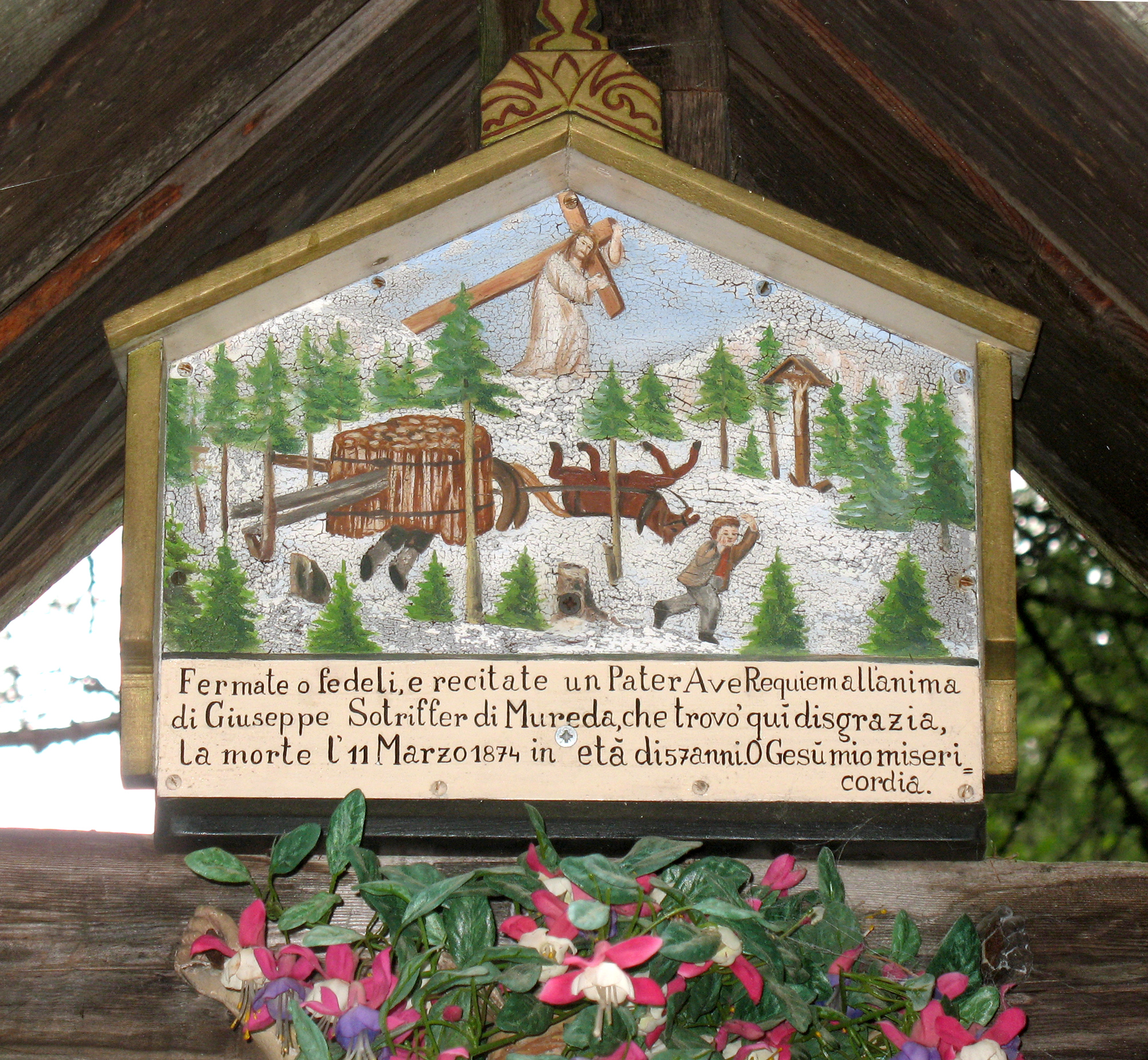 Depiction of a frequent work accident in Gherdeina during the hard winters